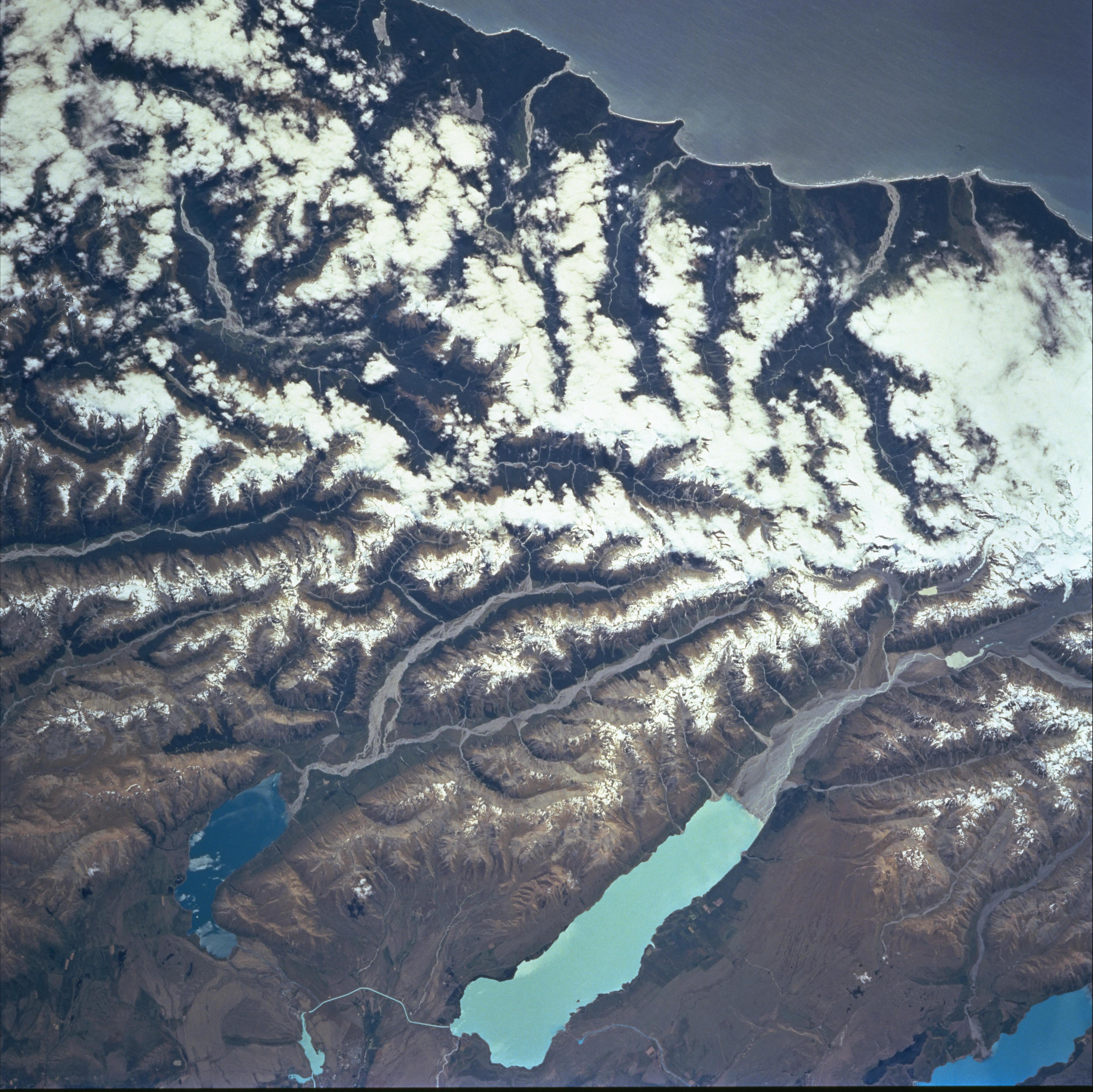 Astronaut's photo of Lake Pukaki and the West Coast, with the Southern Alps in between, on New Zealand's South Island. Northwest at top of image.